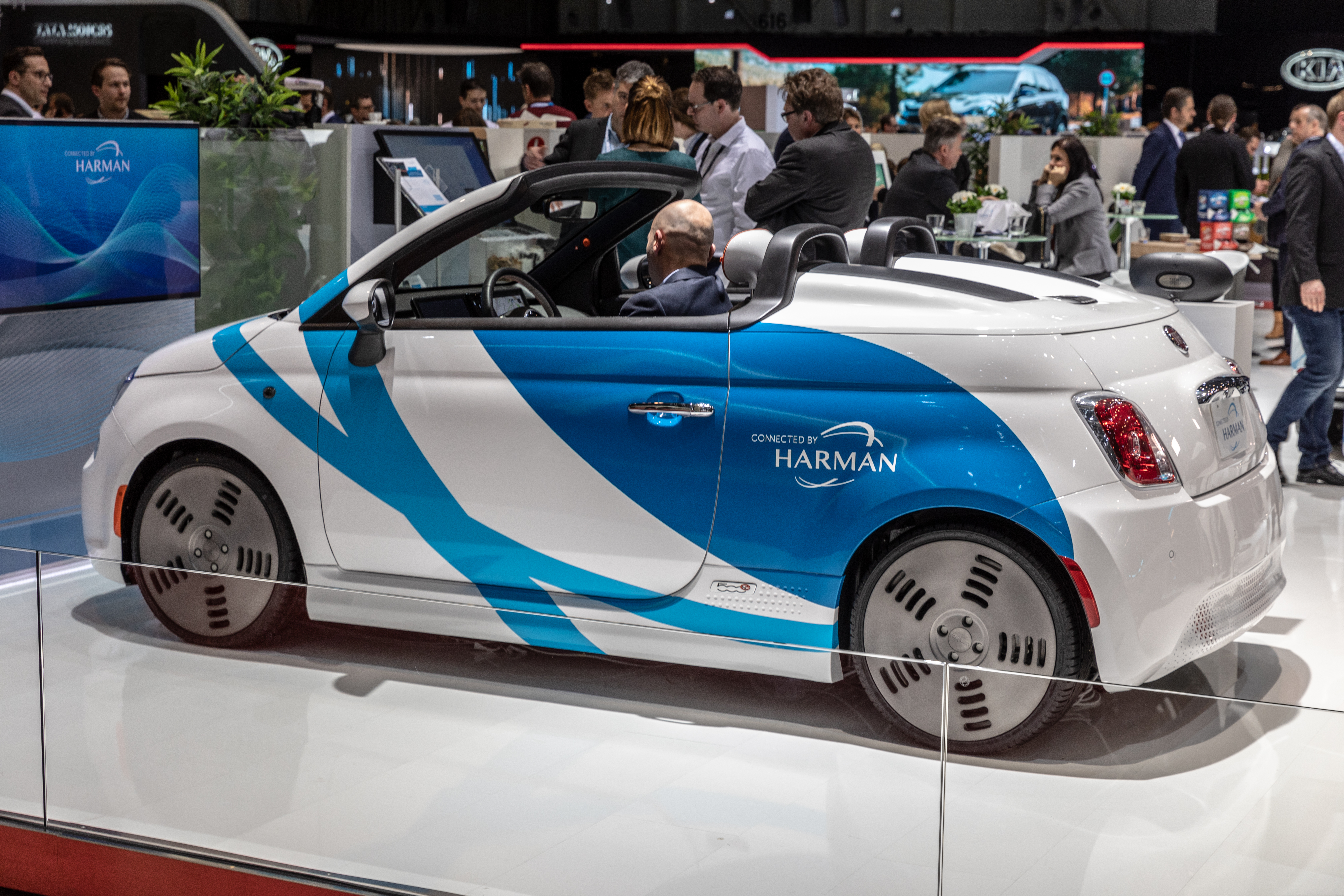 Geneva International Motor Show 2019, Le Grand-Saconnex